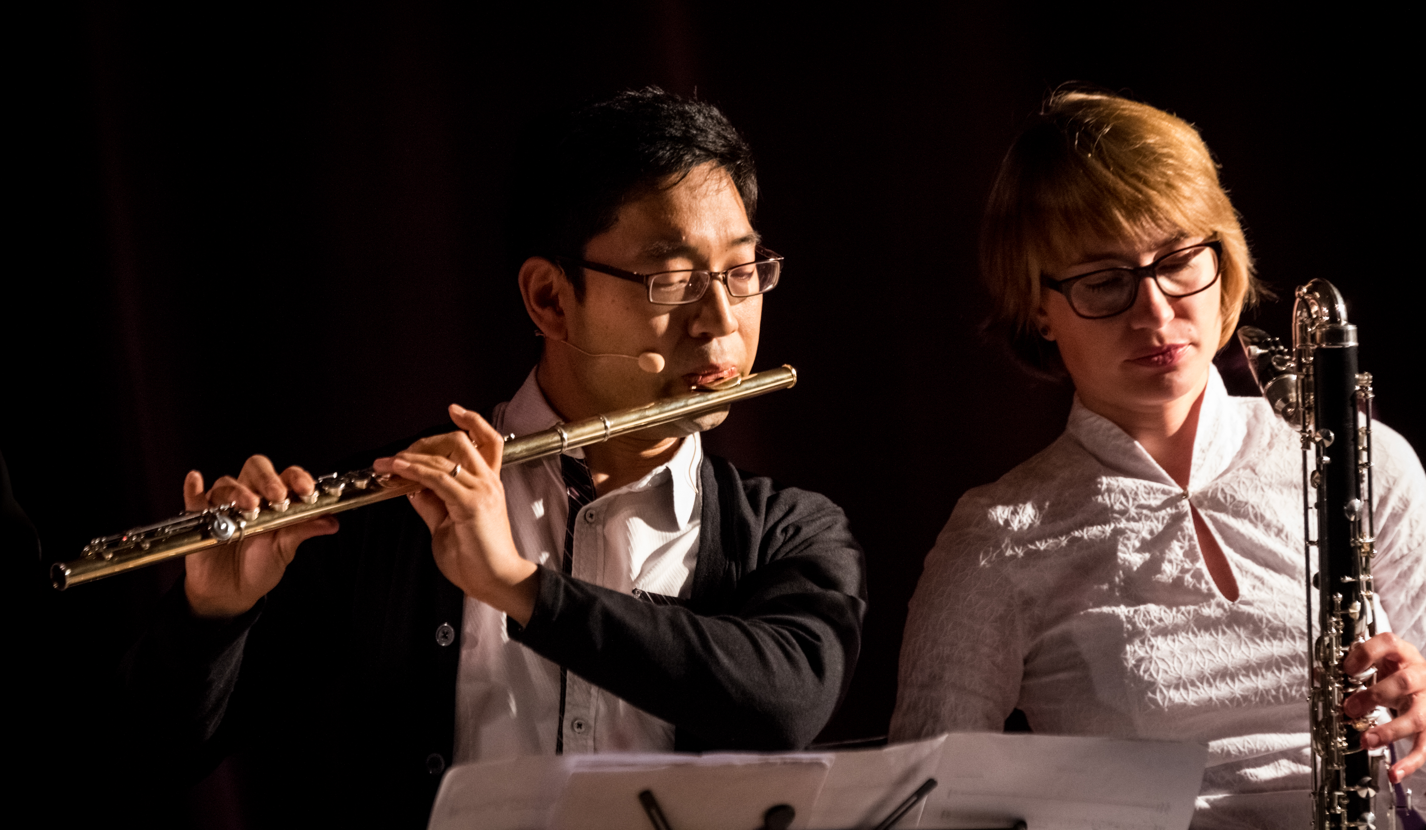 Rebecca Trescher - Leverkusener Jazztage 2016